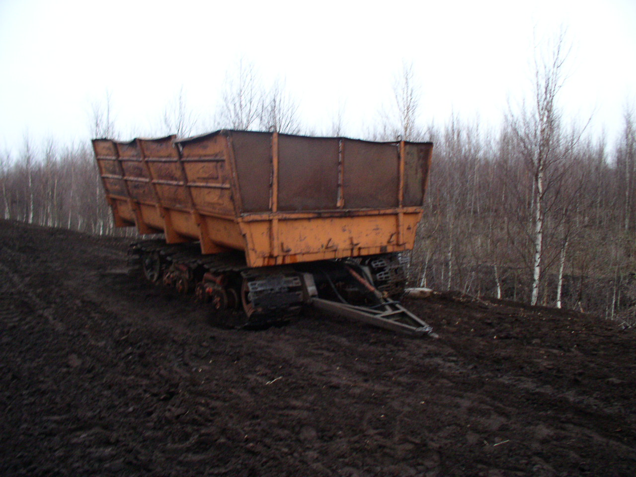 Machinery at peat mining near Rudzensk, Belarus.